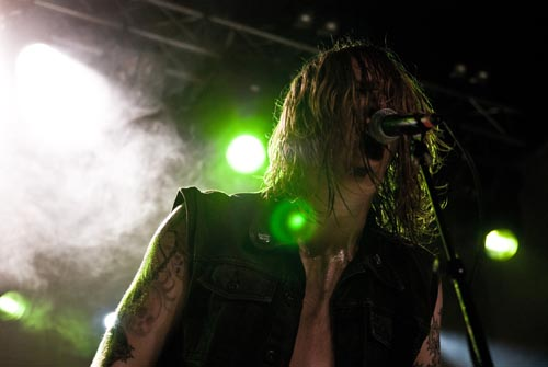 Blake Judd of Nachtmystium, live at Hole In The Sky, Bergen Metal Fest 2007